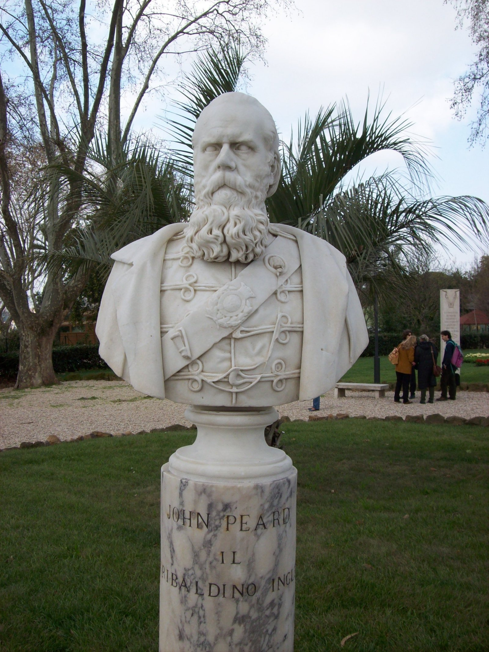 the British Colonel John Whitehead Peard (born 1811 in Fowey, Cornwall, died 1880), nicknamed "Garibaldi's Englishman". Bust in Rome atop of Gianicolo Hill, near to the Monument of Giuseppe Garibaldi